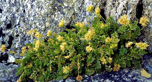 Ivesia longibracteata — Castle Crags ivesia. Endemic wildflower plant of Castle Crags Wilderness Area, Klamath Mountains, Shasta-Trinity National Forest, in Northern California.